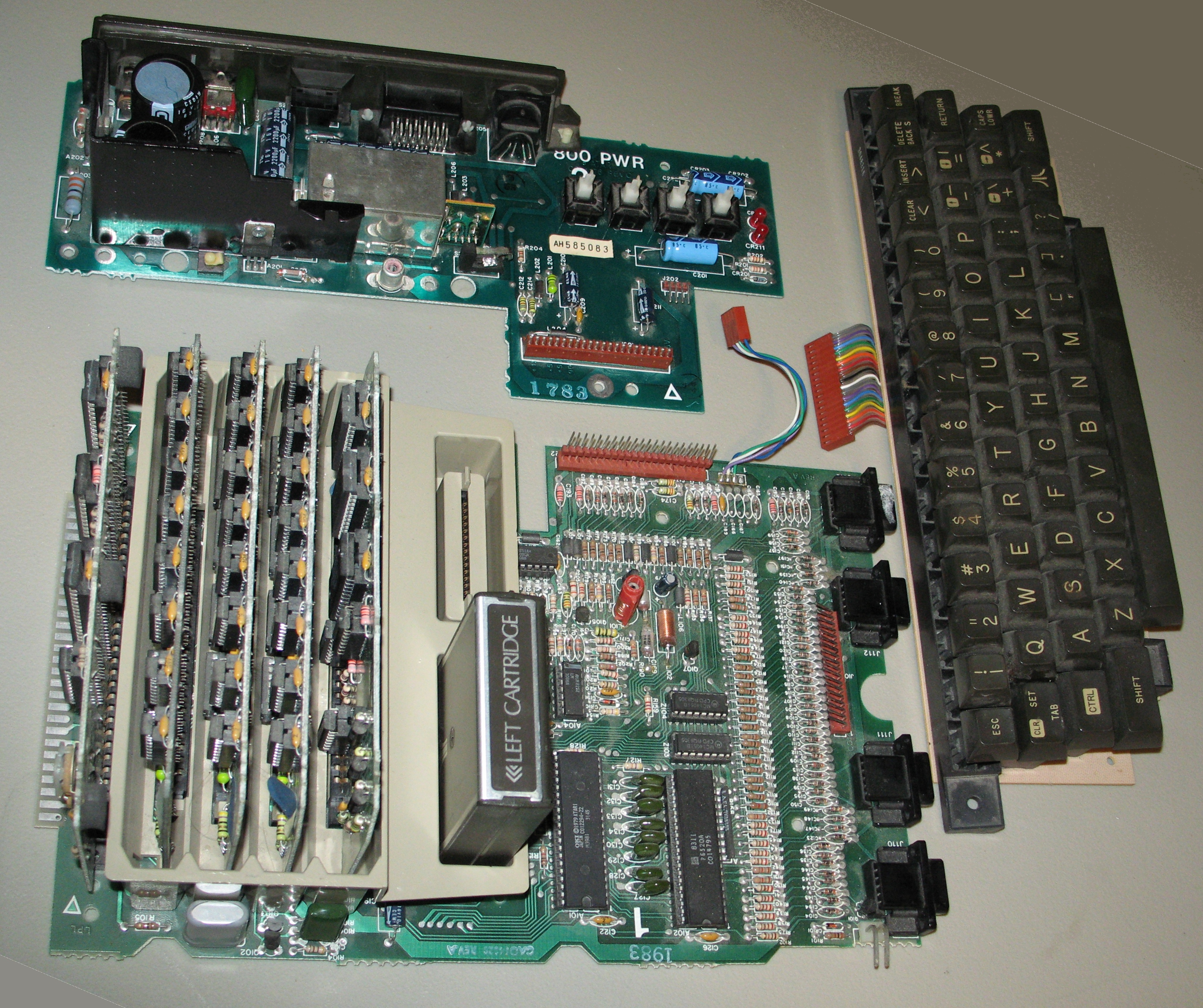 Internal components of the Atari 800 without the heavy aluminum RF shielding. Top: External I/O and power supply board (DC, video, serial) Bottom: Main system board, which is really mostly a dumb bus with the major components mounted on daughtercards Right: Keyboard On the main board from left to right: Processor board (was hidden in the back inside the aluminum shield 16 kilobyte memory board 16 kilobyte memory board 16 kilobyte memory board DOS ROM board to add support for booting floppy drives Atari BASIC cartridge in the left cartridge slot Although the main board has a card edge connector on the rear, this connector was inside the aluminum shield and unavailable for use in the fully assembled system.